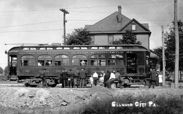 Photo of a Pittsburgh, Harmony, Butler and Newcastle railway car. Postmarked in 1908, this is the same year the railway began its service.